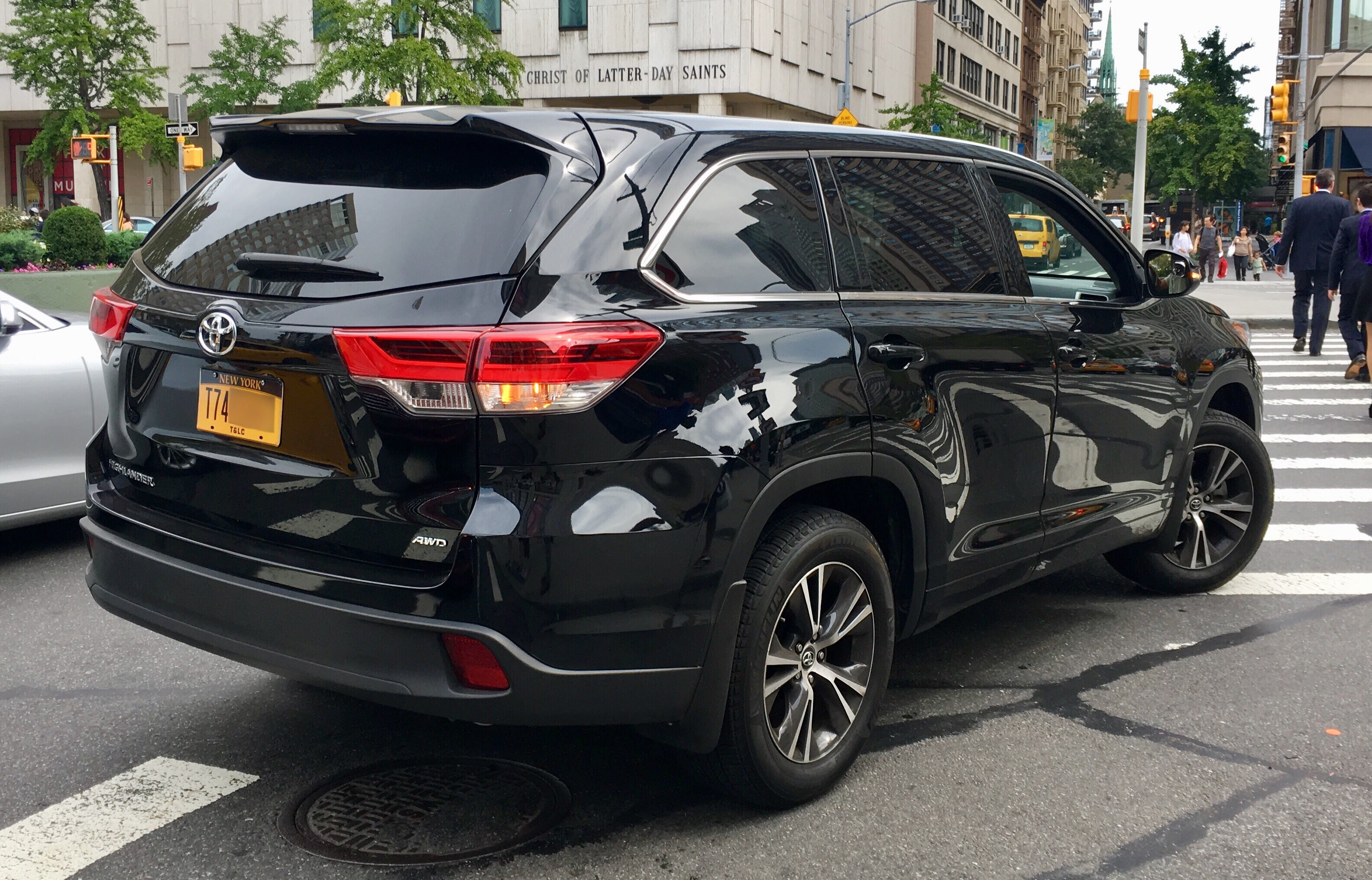 Facelift Highlander